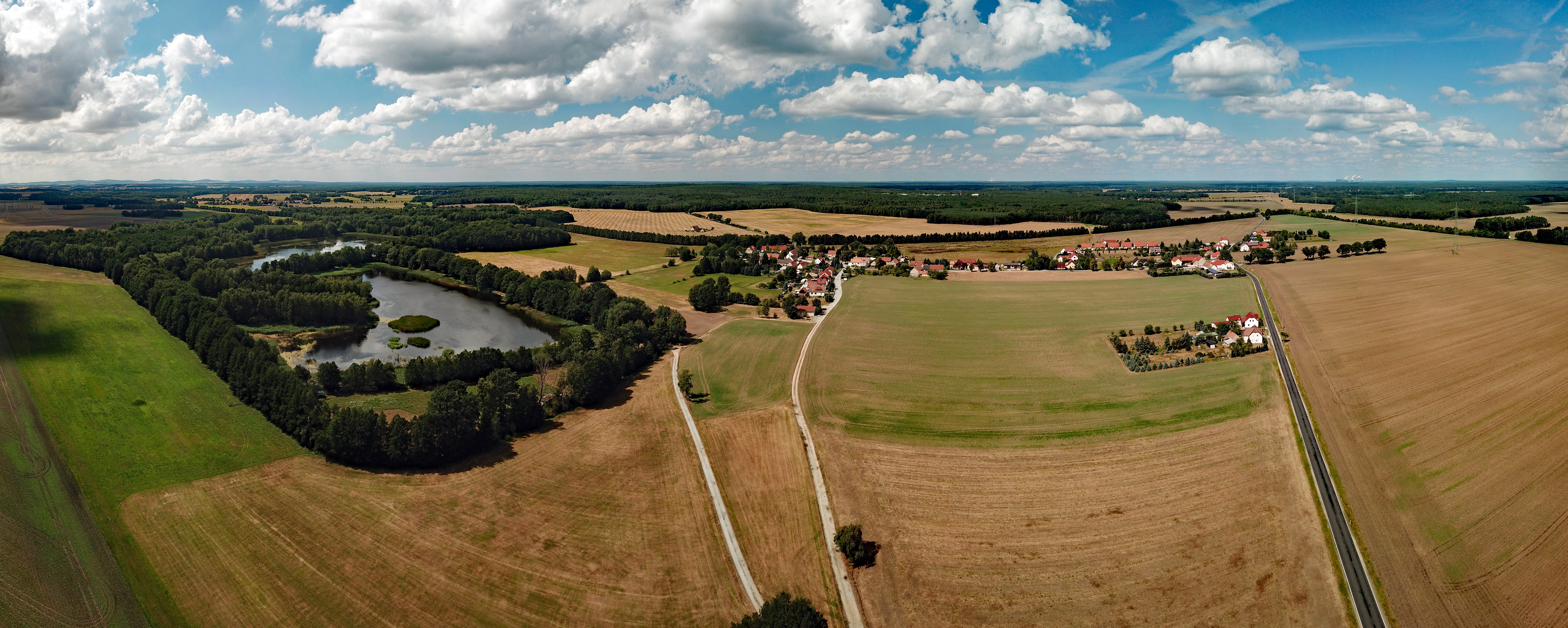 Lomske (Radibor, Saxony, Germany) Hornjoserbsce: Powětrowy wobraz Łomska pola Radworja